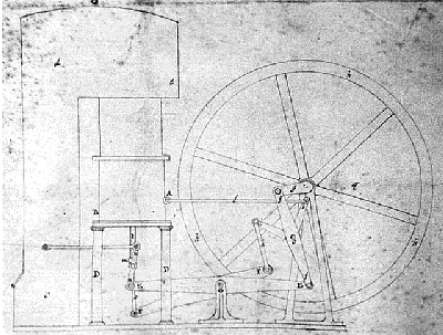 Illustration to Robert Stirling's 1816 patent application of the heat engine which later came to be known as the Stirling Engine.